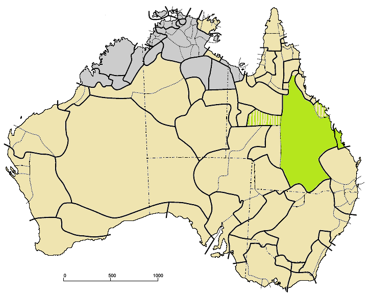 Maric languages (green) among Pama–Nyungan (tan). The solid area on the coast is Kingkel. The striped areas are Ngaro and Giya on the coast and Guwa and Yanda in the interior, which may be Maric.